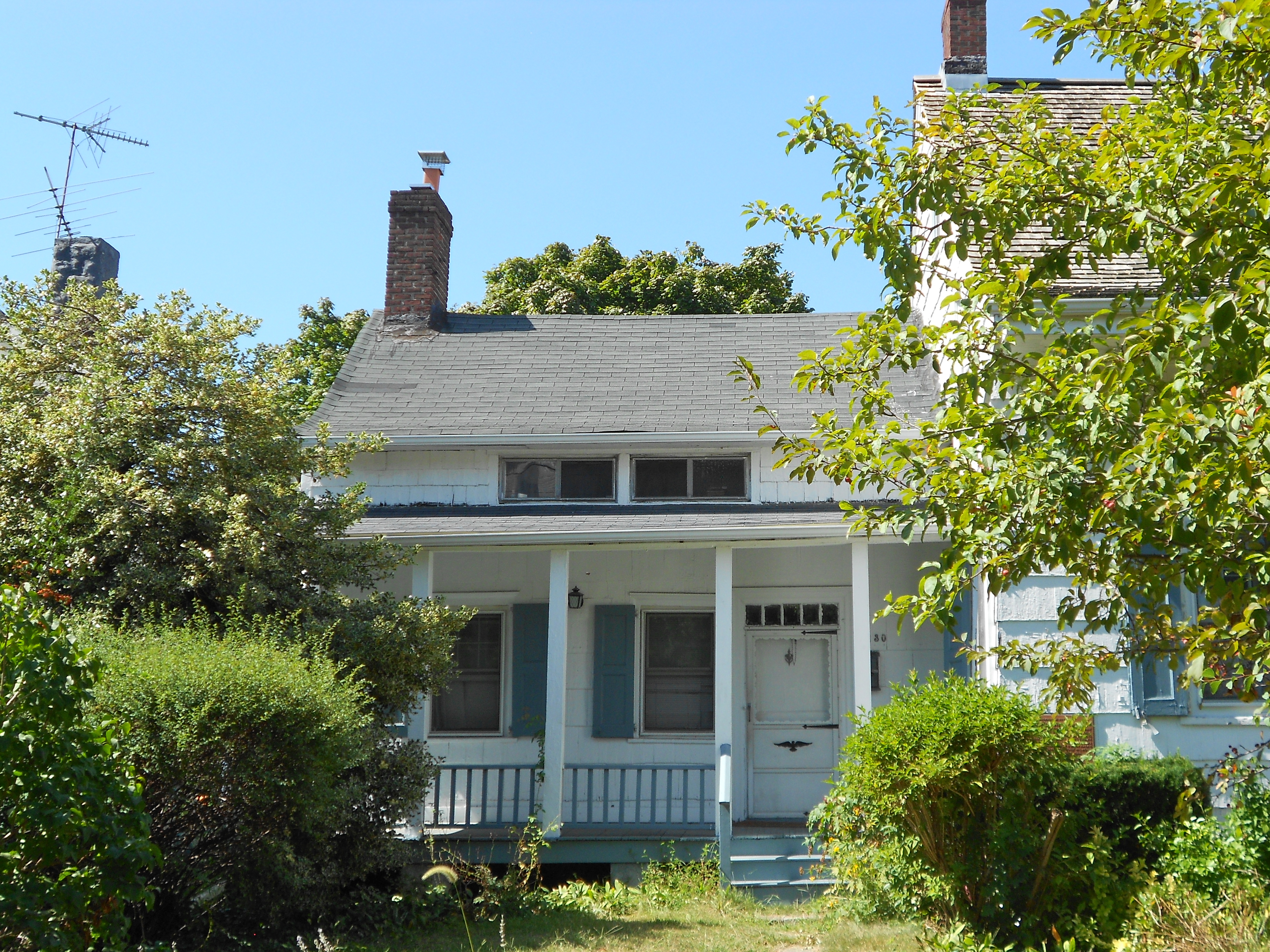 Joost Van Nuyse House Listed on the NRHP on June 9, 2006. At 1128 E. 34th St., Flatlands, Brooklyn, New York. This small house was built before the larger part and dates to c. 1744.